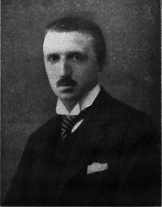 Ivan Skerlecz de Lomnica, croatian ban (viceroy)